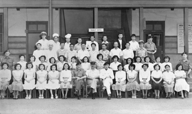 Iwakuni, Japan. c. April 1953. Group portrait of the day shift staff of the Transit Hotel at No. 91 (Composite) Wing, RAAF. The hotel, a section of No. 391 Base Service Squadron, RAAF, is primarily intended to feed and accommodate United Nations troops passing through Iwakuni, mainly en route to the Korean front, however, it also accommodates businessmen and show girls. The hotel is always open and offers meal services twenty four hours a day, as well as a currency changing service The hotel has a staff of fifty six Japanese as well as servicemen from the RAAF, RAF and the British and Australian Armies. Identified is the Officer in Charge, 3498 Flight Lieutenant Kenneth McCullough (eighth from left, front row). (Donor K. McCullough)